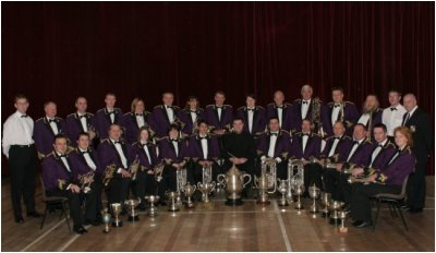 Kingdom Brass Photo